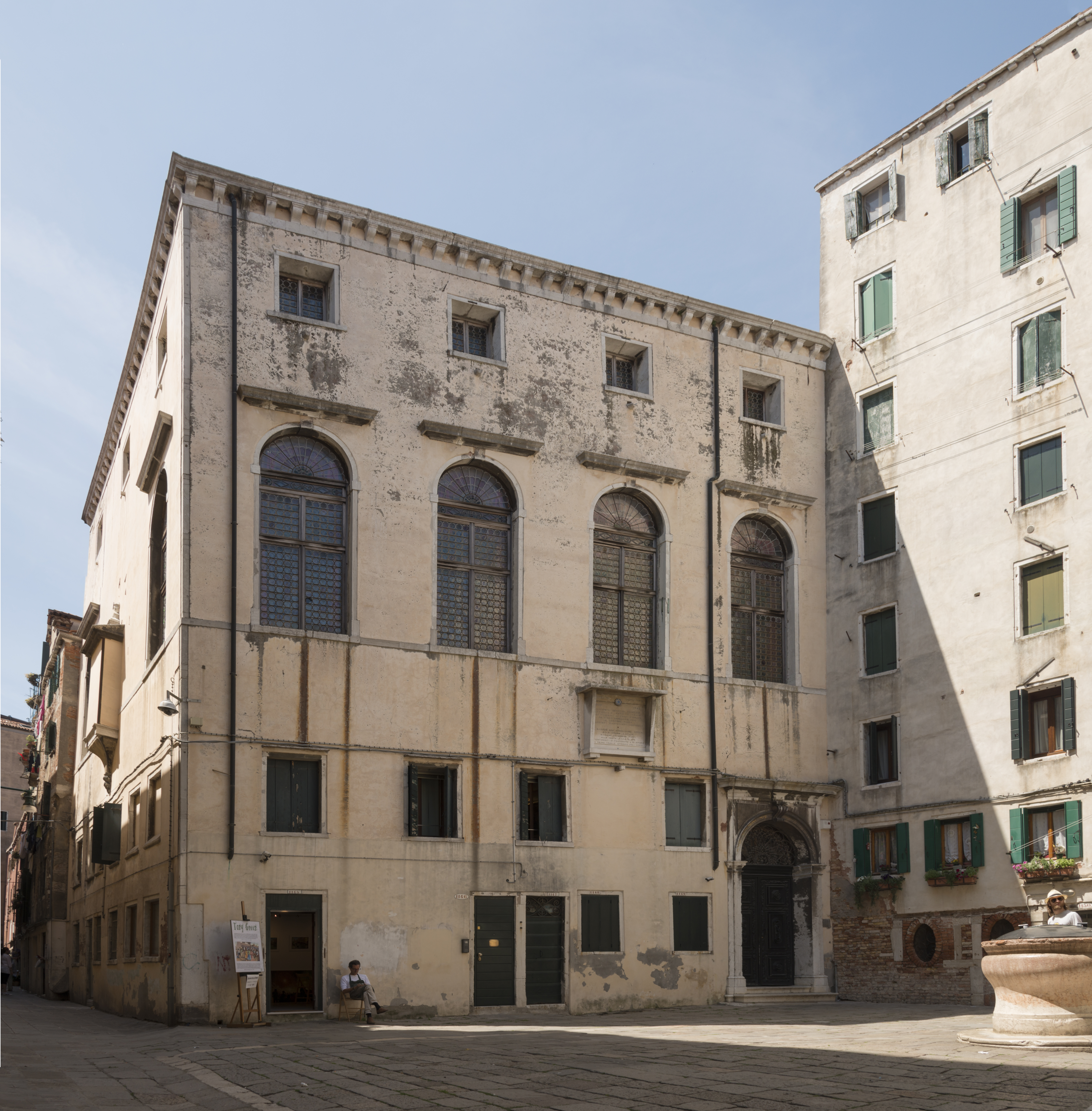 Spanish Synagogue in Venice – Facade on Campo delle Scole.